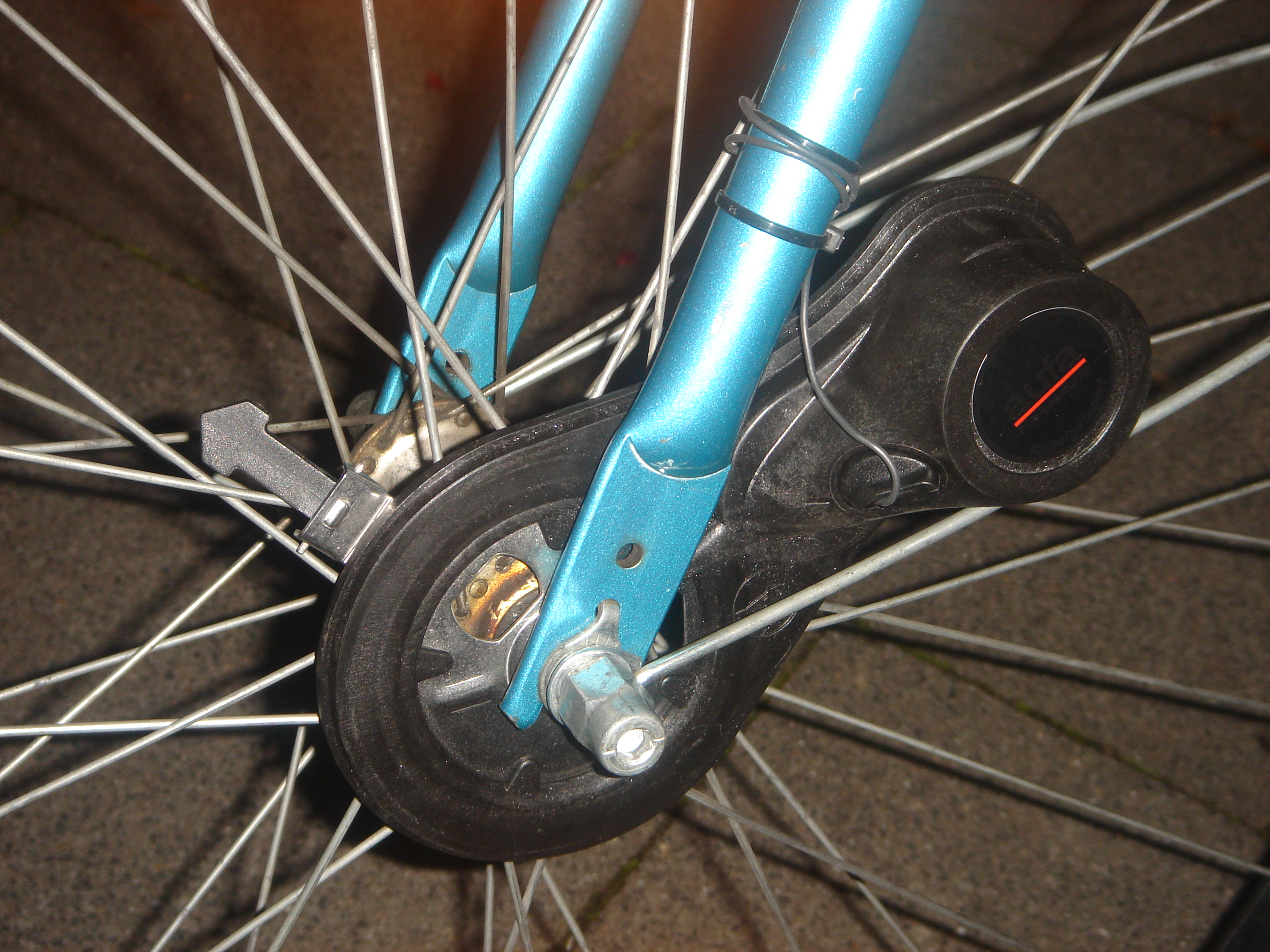 A spoke dynamo (aufa FER)